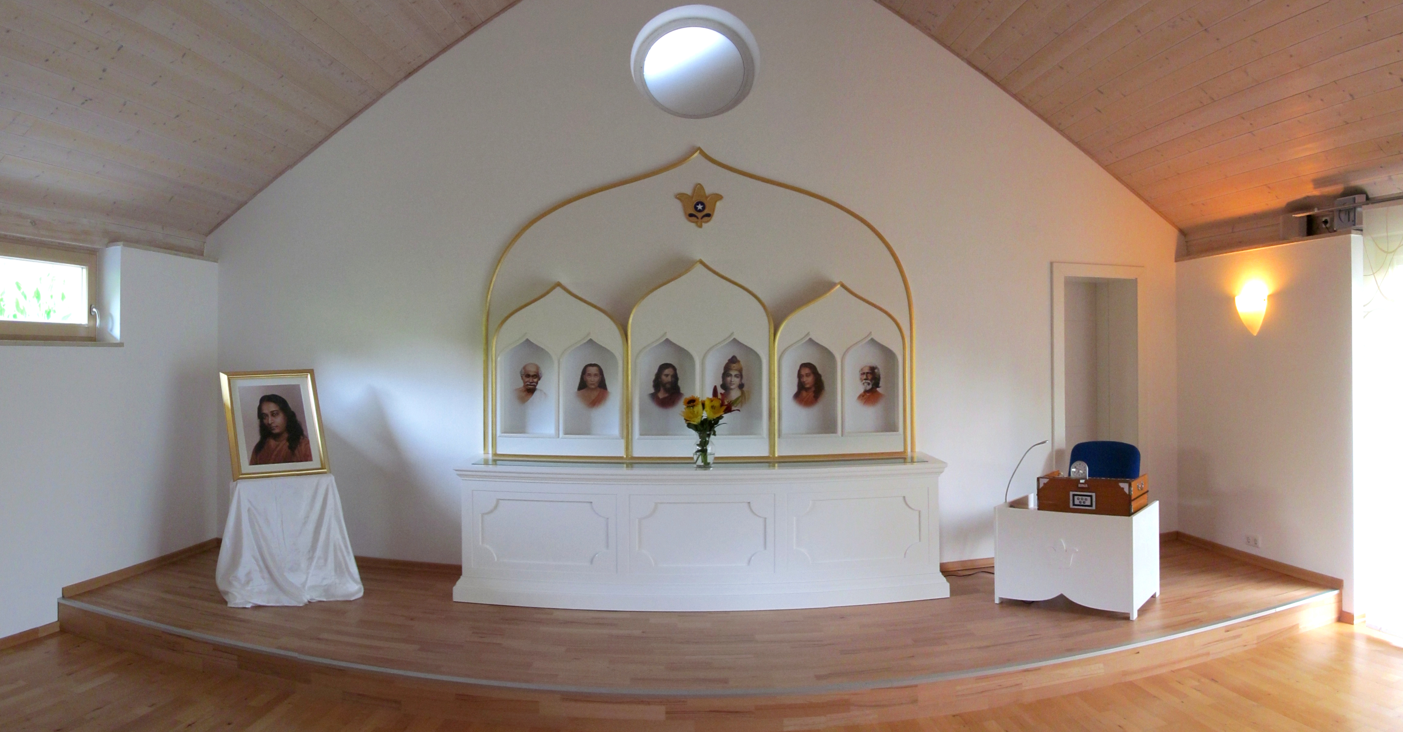 Altar of the meditation circle Langerringen near Augsburg in Bavaria, Germany. Group of Self-Realization Fellowship.